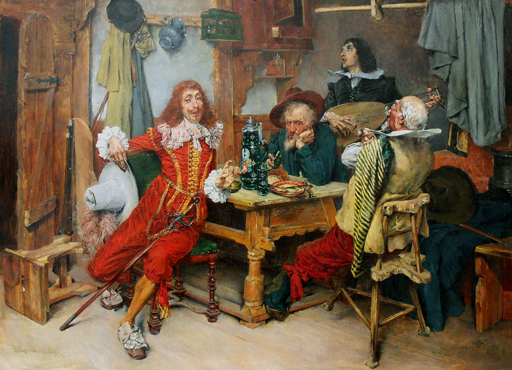 Musketiere in der Weinstube